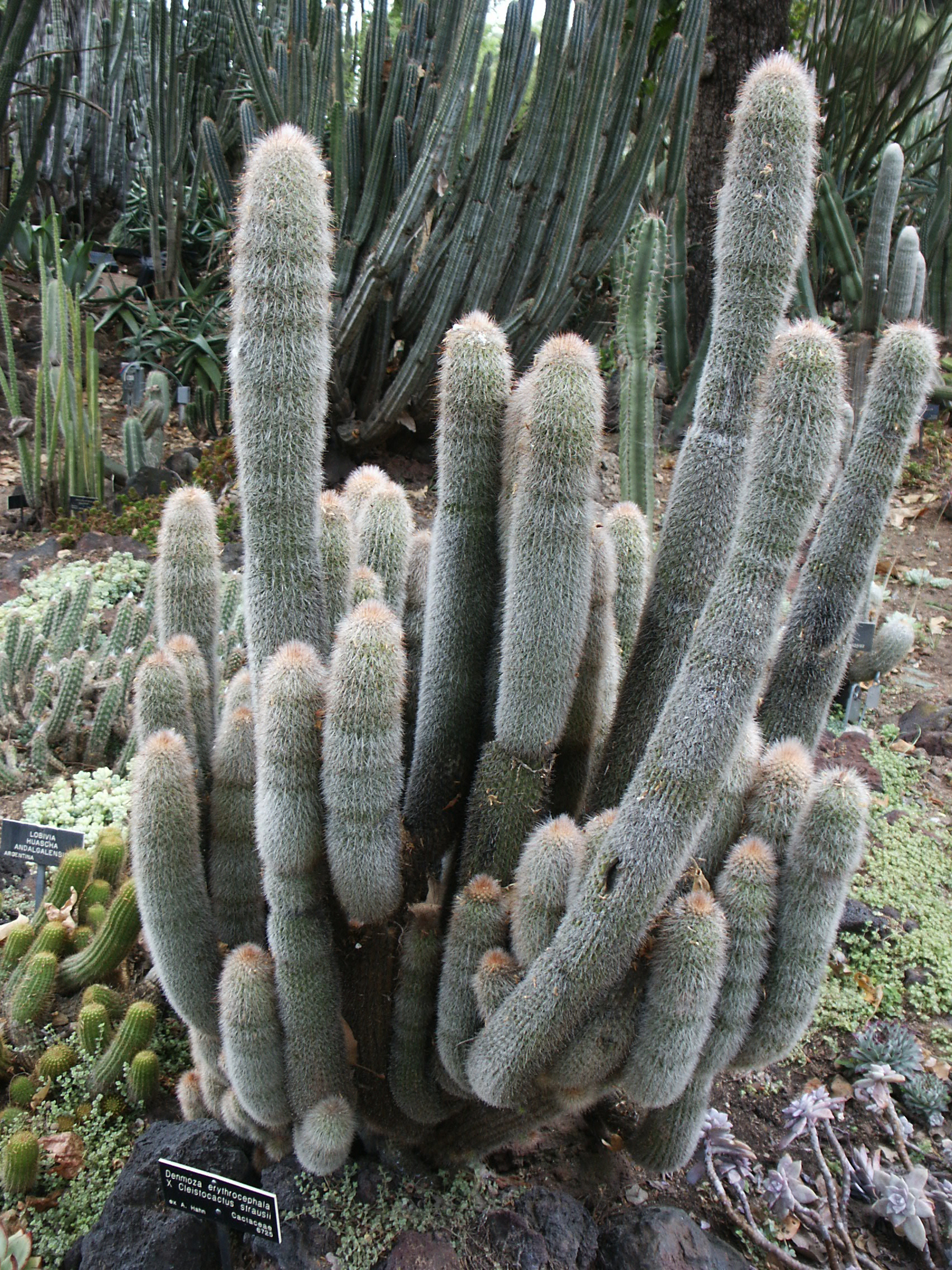 × Cleistoza (Denmoza erythrocephala × Cleistocactus strausii), Huntington Library Desert Garden May 2009